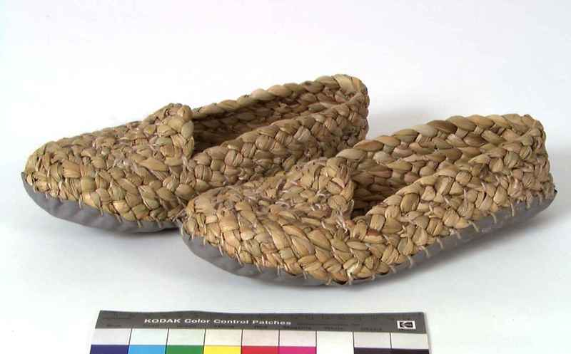 Pair of reed shoes from Rogaland, Norway